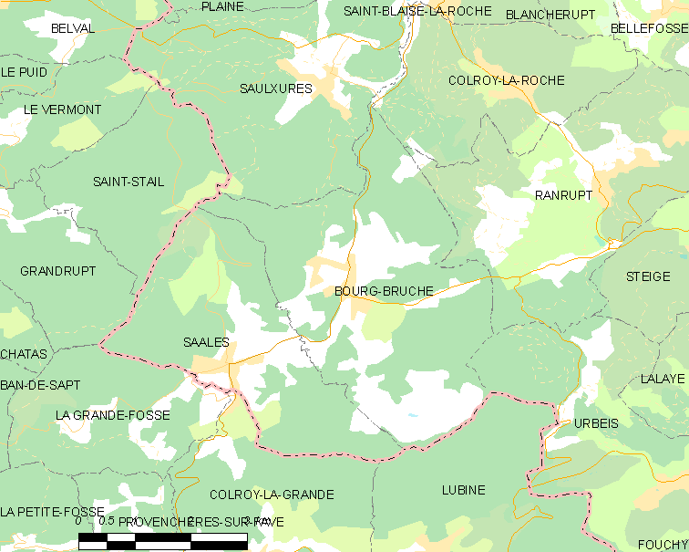 Map of French municipality